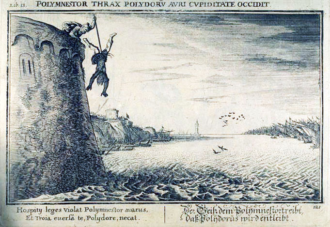 Polymnestor kills Polydorus. Engraving de Bauer for Ovid's Metamorphoses Book XIII, 430-438.